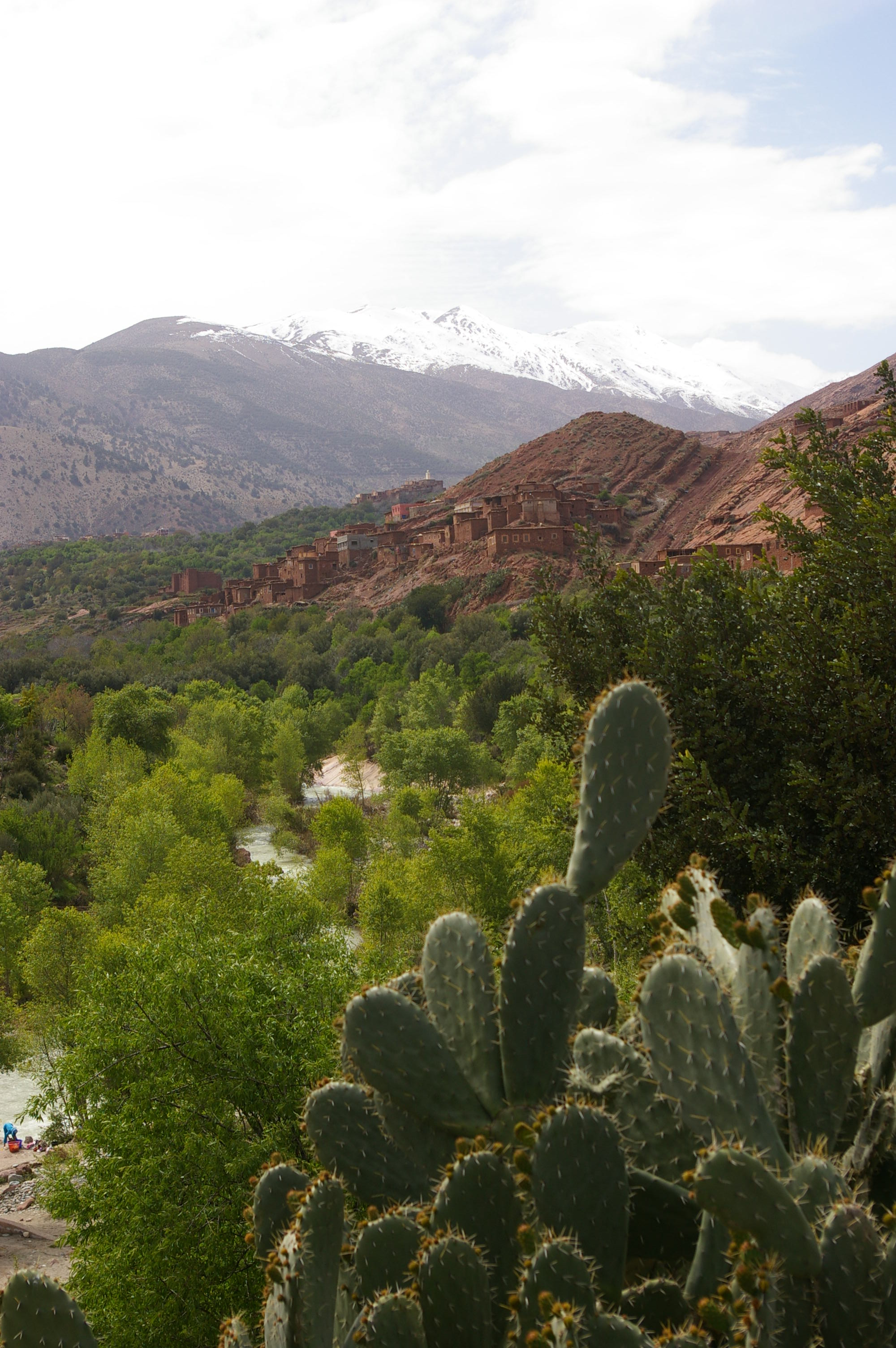 Village in the High Atlas, between Marrakech and the Tizi n'Test pass. (I'm sorry, but I can't give a more precise location.)